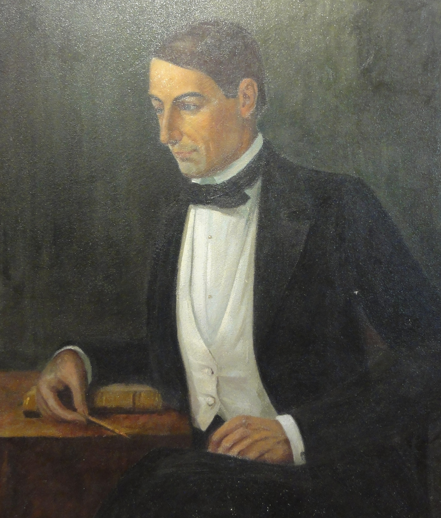 Painting of Valentin Tricoche, ca. 1850